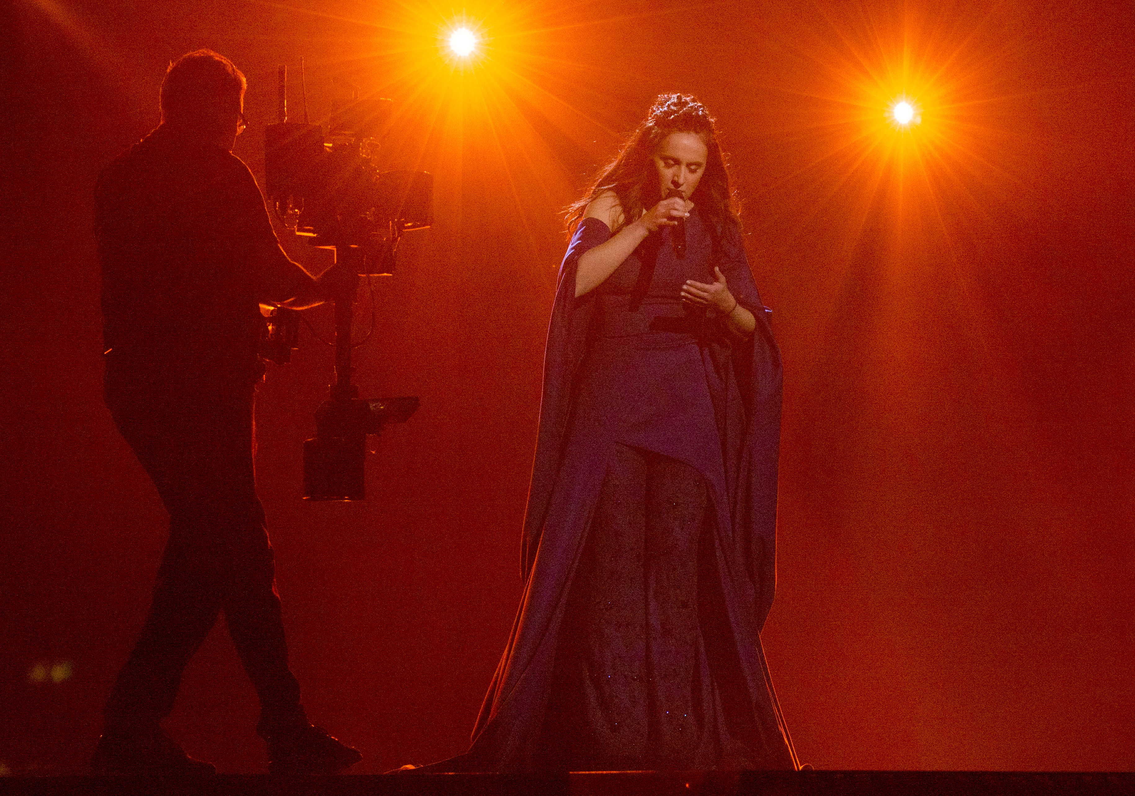 Jamala representing Ukraine with the song "1944" during a rehearsal before the second semi final of the Eurovision Song Contest 2016 in Stockholm. (Help translate this text)